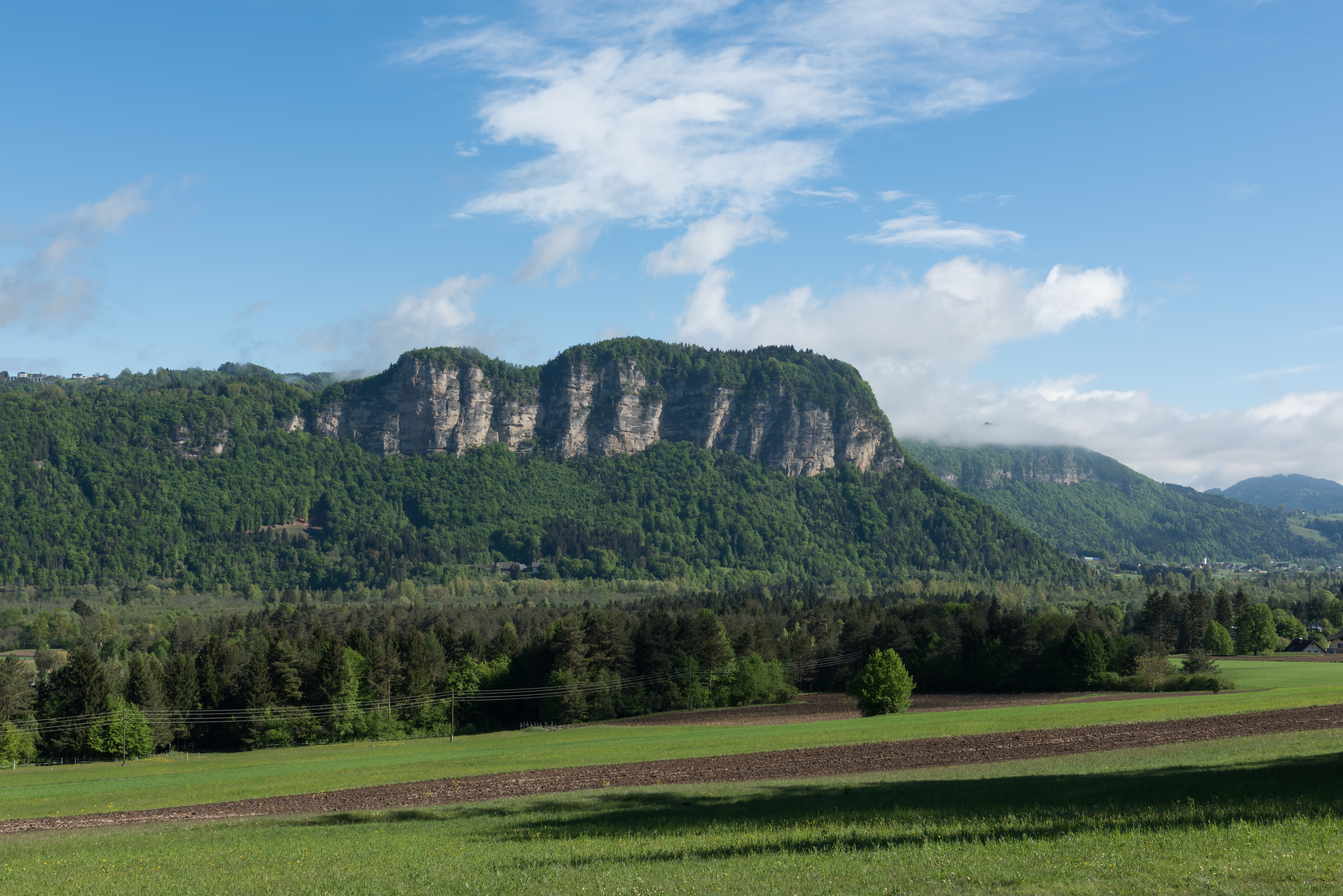 Landscape of the Rosental at Gotschuchen, municipality Sankt Margareten im Rosental, district Klagenfurt Land, Carinthia, Austria, EU